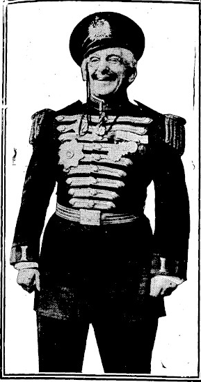 Jefferson de Angelis in "The Beauty Spot," 1911.